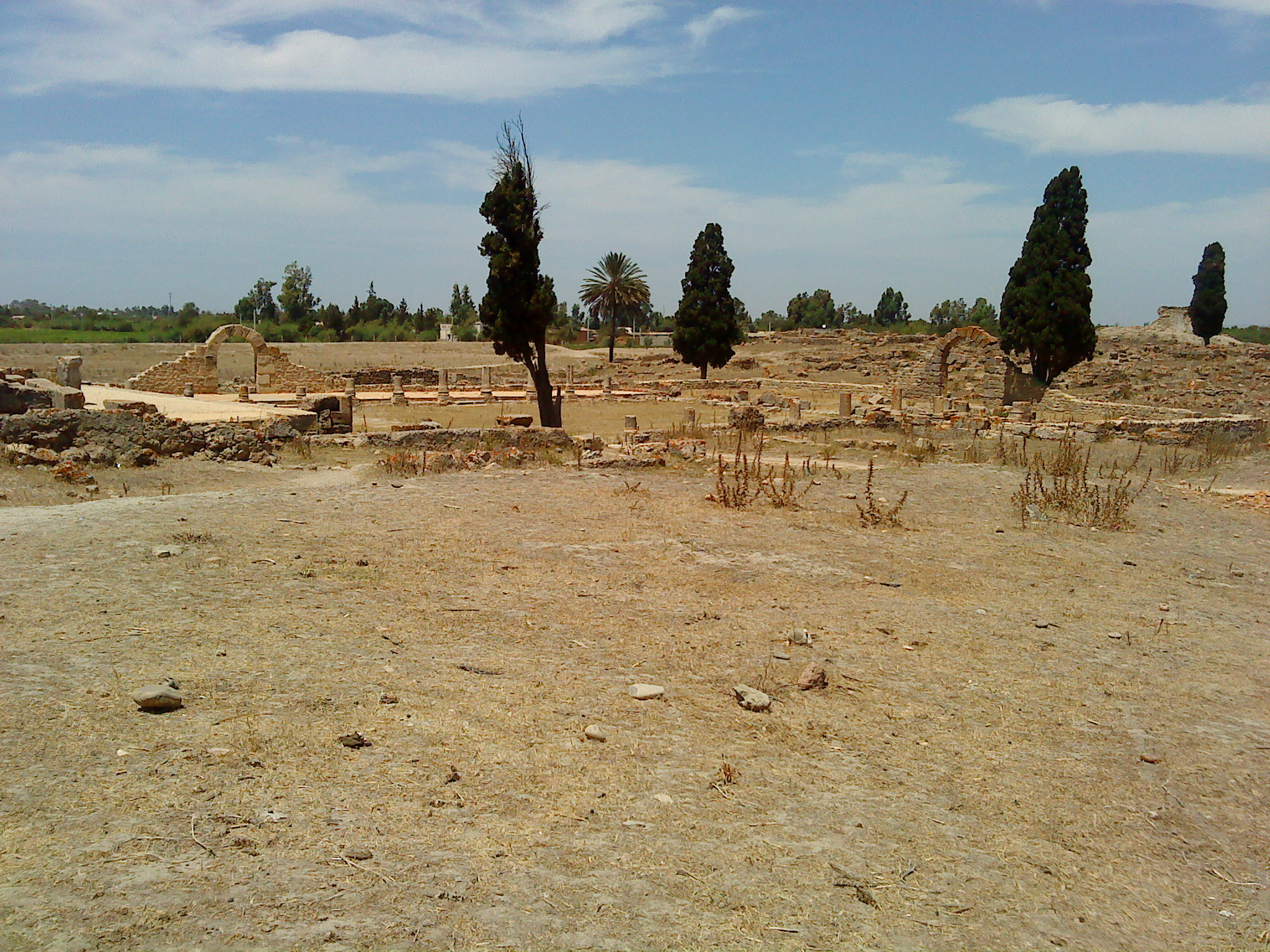 inside Banasa